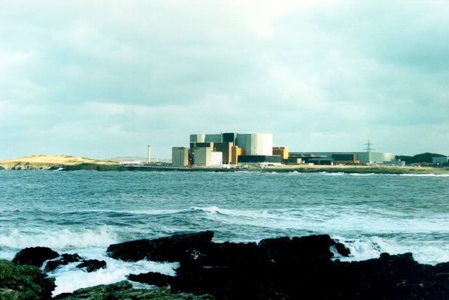 Wylfa Nuclear Power Station, Anglesey. Wylfa power station viewed from the Cerrig Brith rocks, north-east across the bay.